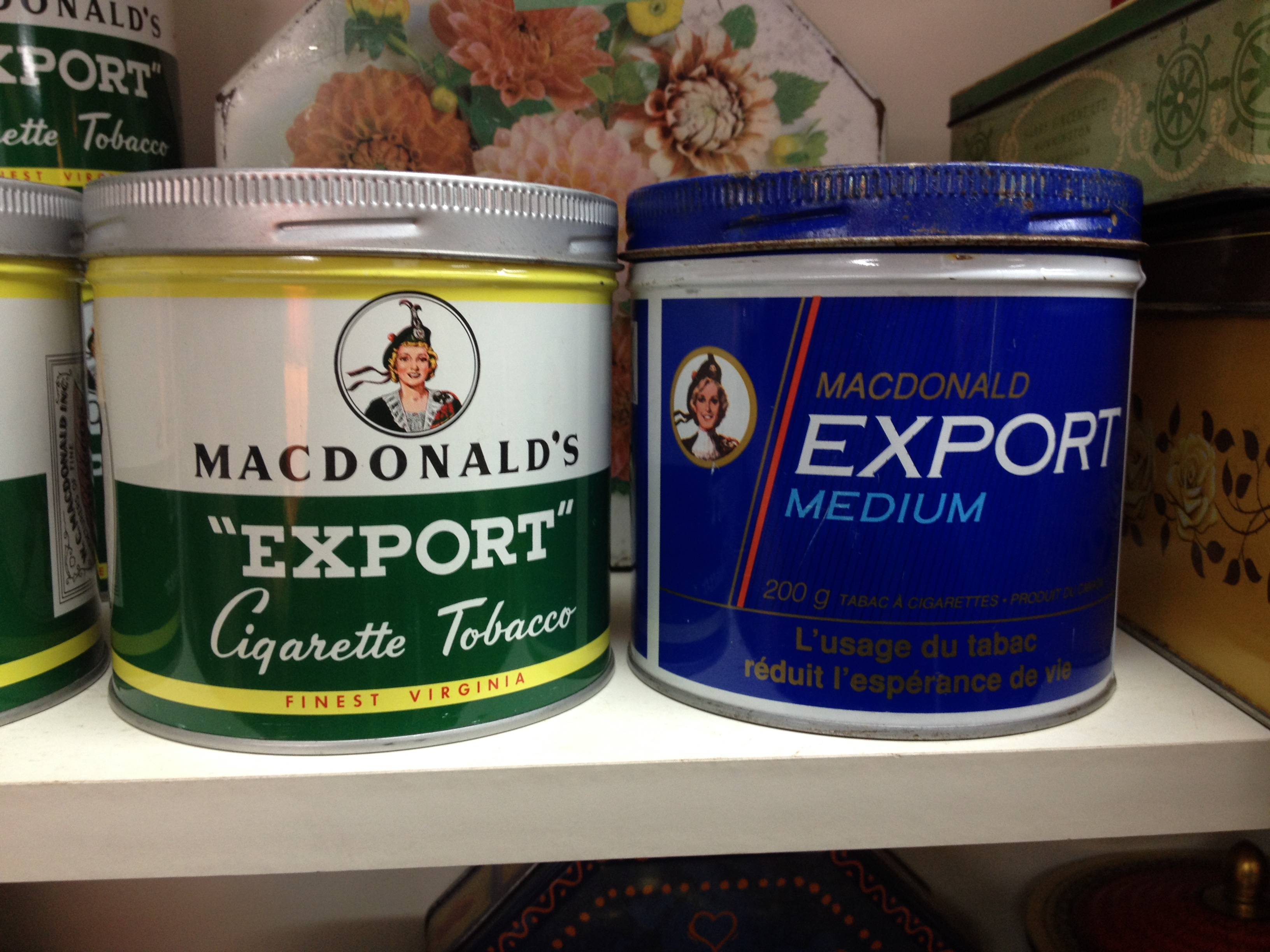 2 tobacco tins - Export cigarettes brand